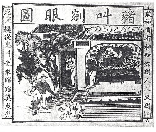 Foreign priests removing eyes of Chinese, and turn them into medicine. 《豬叫剜眼圖》描繪邪教收納妖人，挖眼製藥。兩旁有聯： 「欺神自有神知，你剜人人又剜你； 死鬼纔從鬼叫，光求瞎瞎莫求光。」